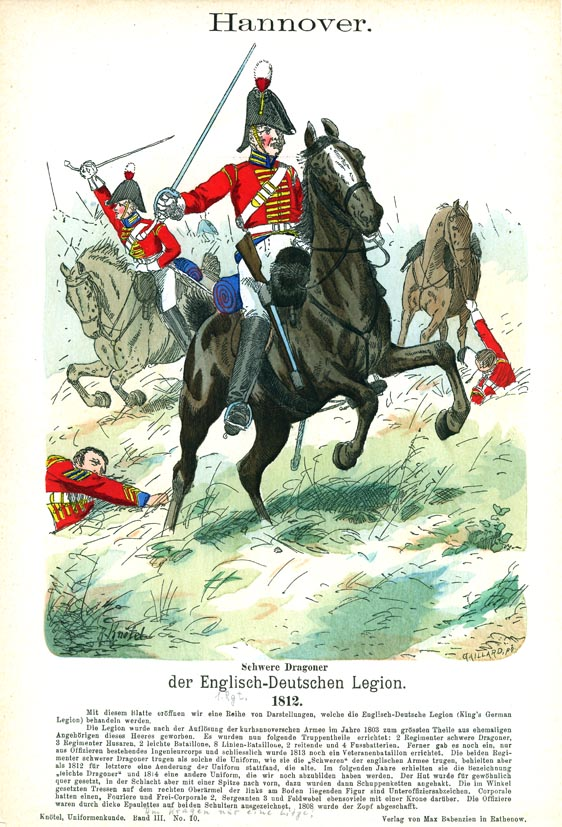 Hannover: Englisch-Deutsche Legion. Schwere Dragoner. 1812